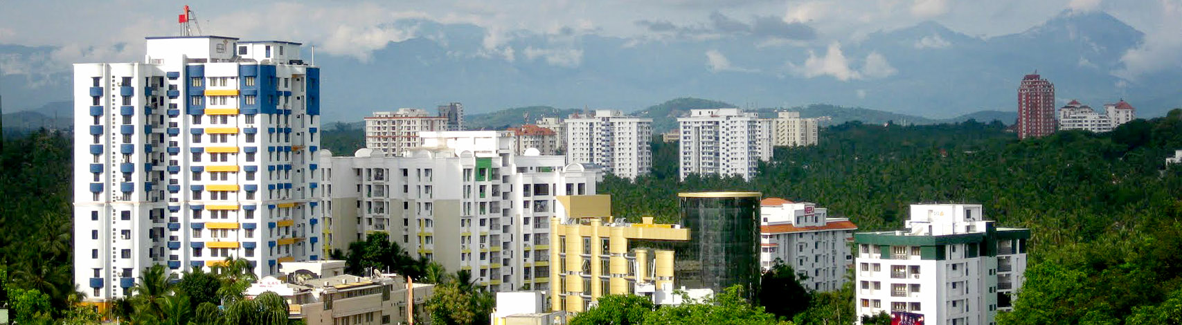 Trivandrum City North East Panorama